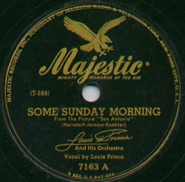 Majestic Record label (featuring Louis Prima). Record from c. 1940s (company went out of business in 1948)